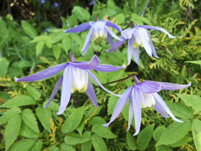 Clematis Alpina Clematis alpina with delicate pale mauve flowers.